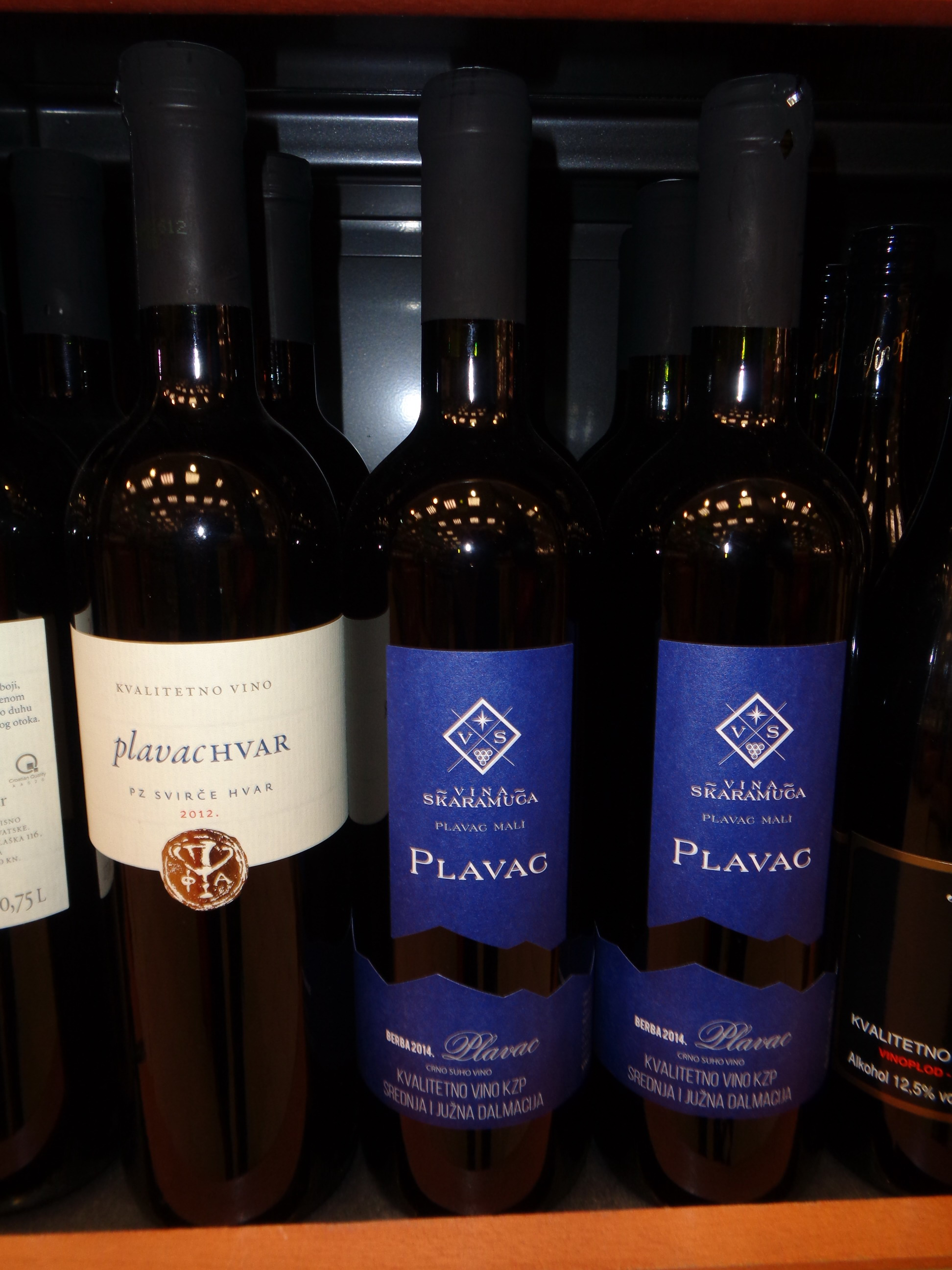 Bottles of Plavac wine, autochthonous quality dry red wine, produced in specified regions of Dalmatia, Croatia, on a shelf